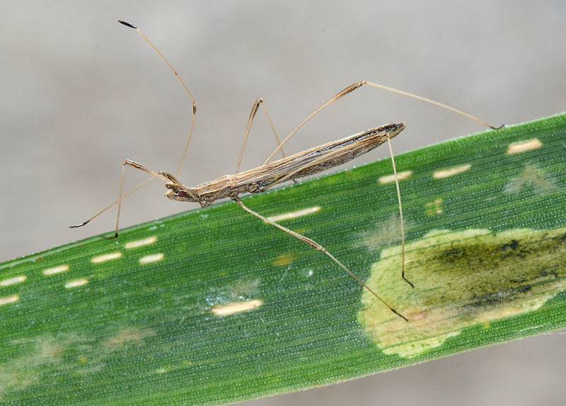 Neides tipularius, location: The Netherlands - Hatertse Vennen - Heiveld